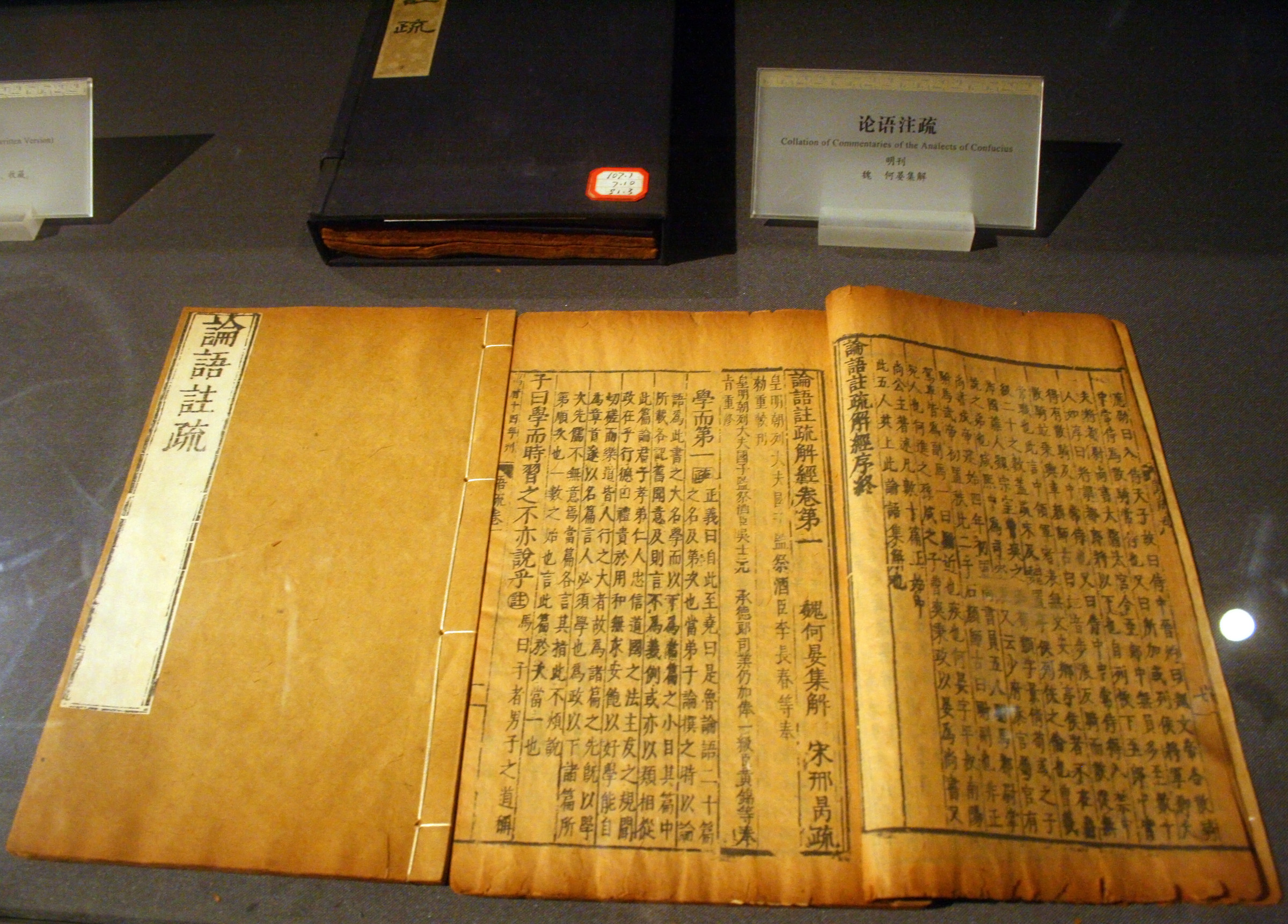 Commentaries of the Analects of Confucius, composed by He Yan in Cao Wei and published in Ming Dynasty